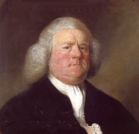 Depicted person: William Boyce